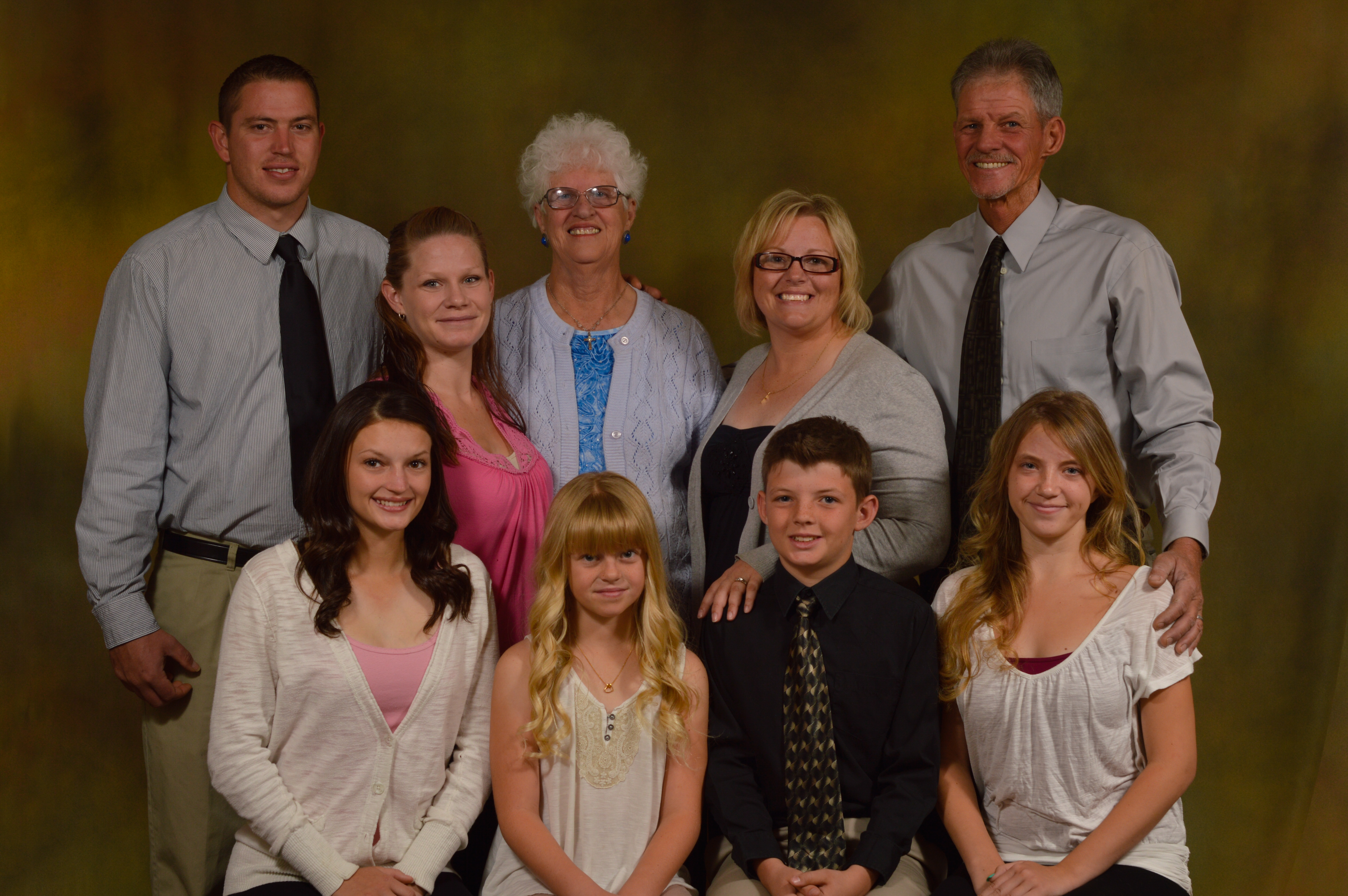 Family portrait photographs Family portrait photographs